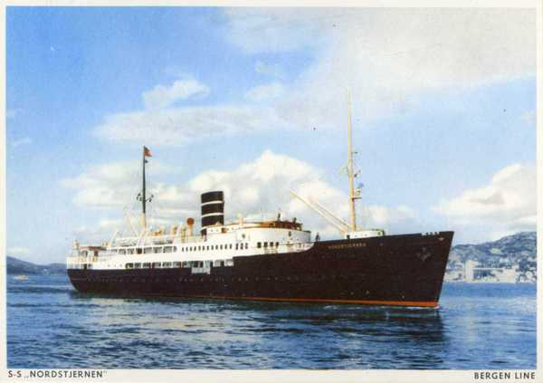 Norwegian steamship Nordstjernen built in 1937.